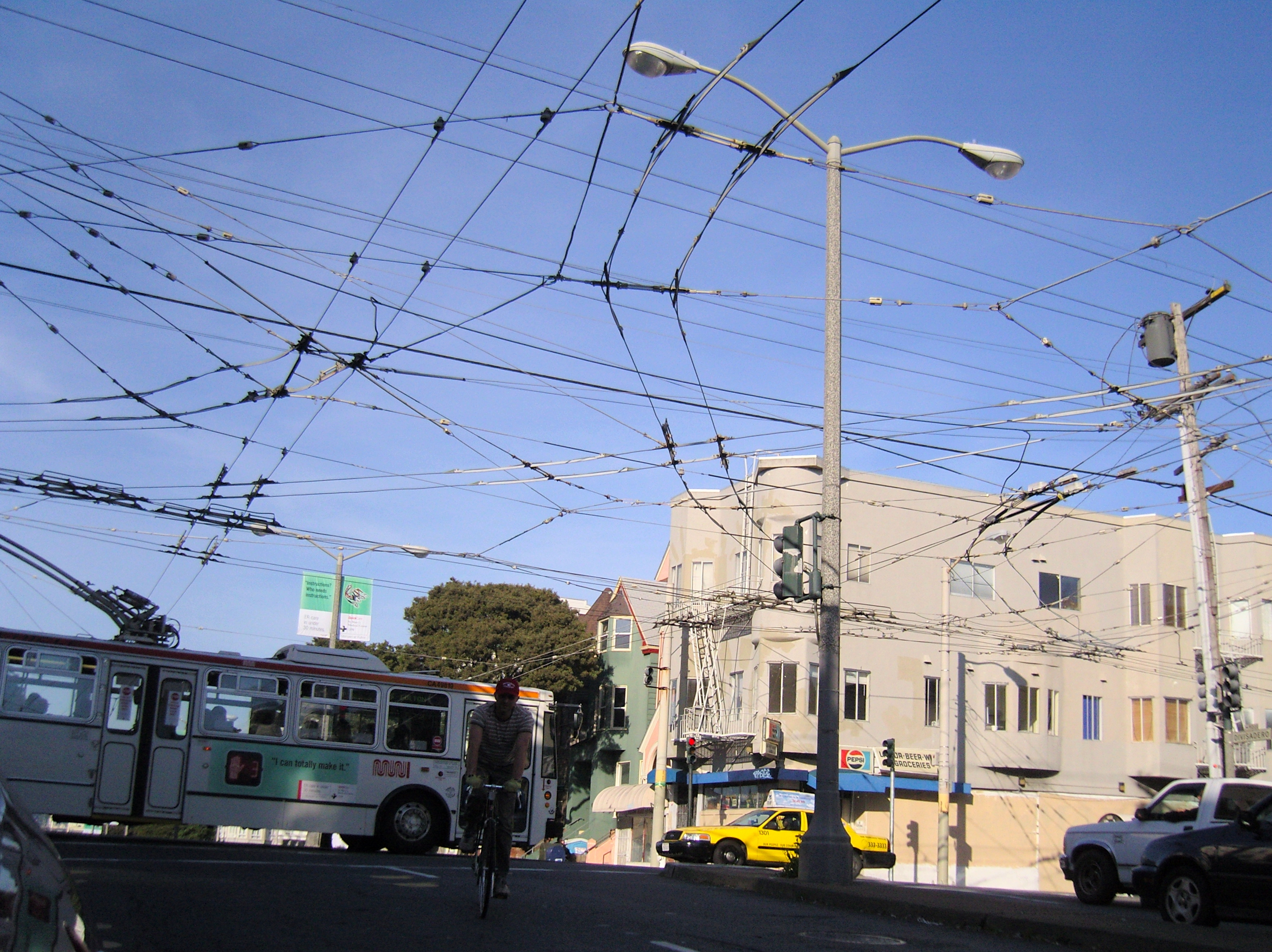 An inbound 5 Fulton trolleybus at Divisadero Street in December 2006